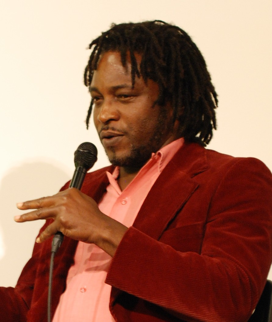 Nigerian writer Biyi Bandele at the Göteborg Book Fair 2010